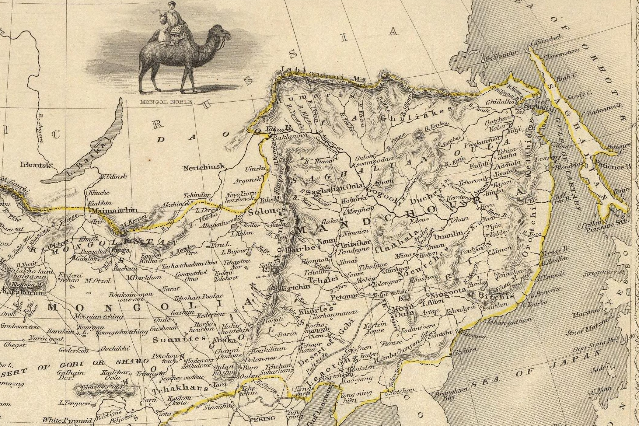 The NE section (Manchuria and Mongolia) of the map of the northern and western part of the Chinese Empire - "Thibet, Mongolia, and Mandchouria". The borders are shows as per the 1858 treaty of Aigun. The main Russian center in Transbaikalia is still Nerchinsk, rather than Chita. The outline of Sakhalin is already shown fairly correctly, but the body of water separating it from the mainland is still labeled "Gulf of Tartary" (rather than '"Strait).